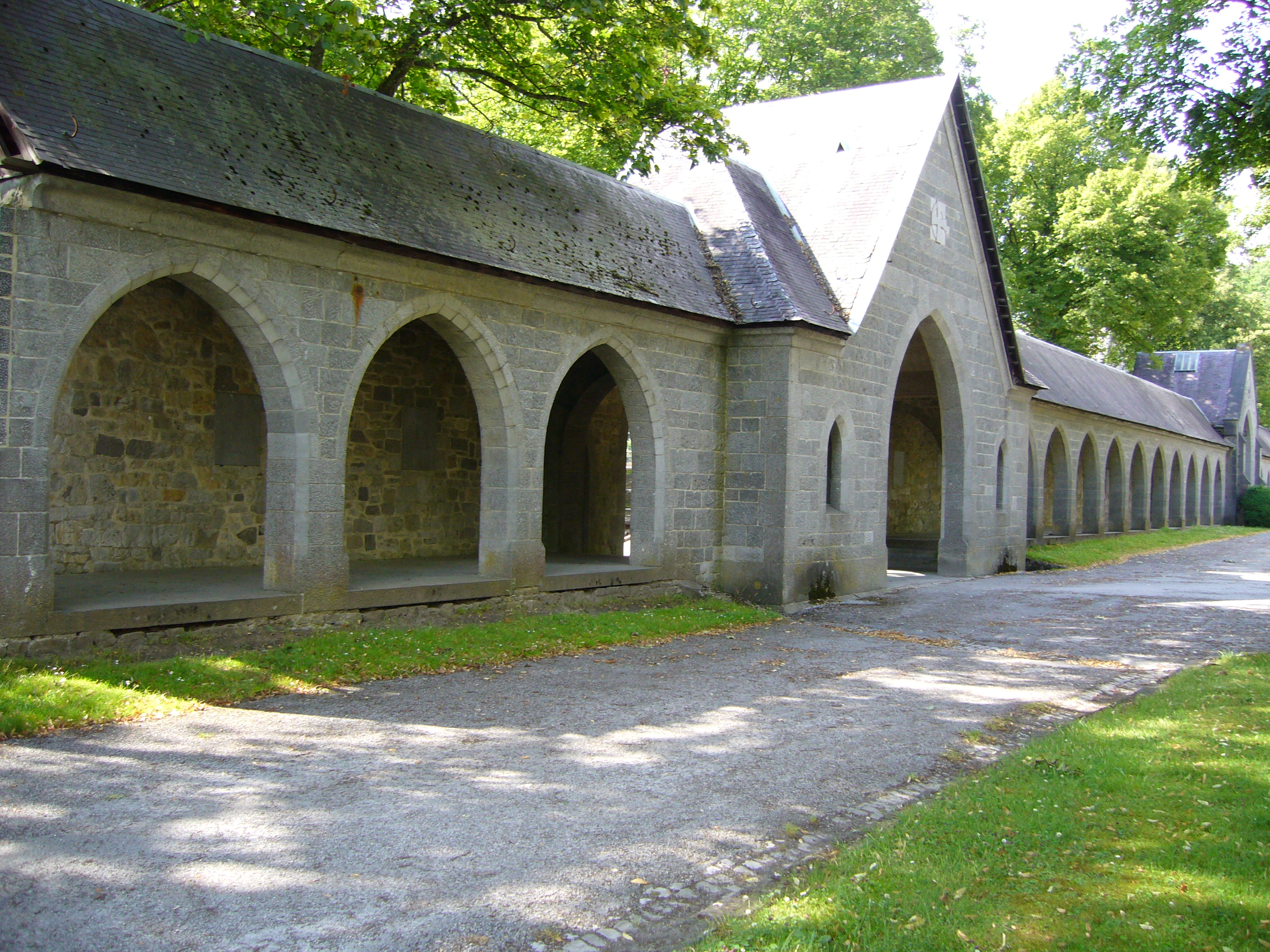 Abbaye de Maredsous